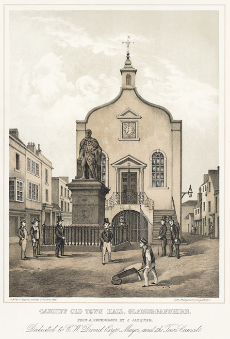 A street scene showing the old Town Hall at Cardiff and other dwellings. A monument of John Marquis of Bute is in front of the Town Hall.